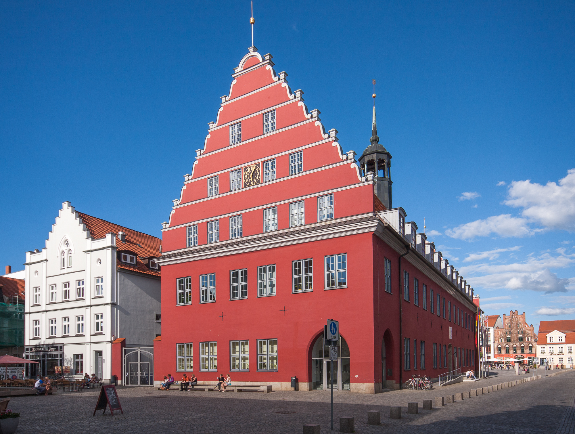 The Town hall at the Fischmarktt, Greifswald, Mecklenburg-Vorpommern, Germany